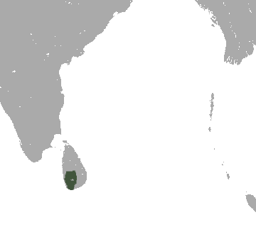 Red Slender Loris (Loris tardigradus) range